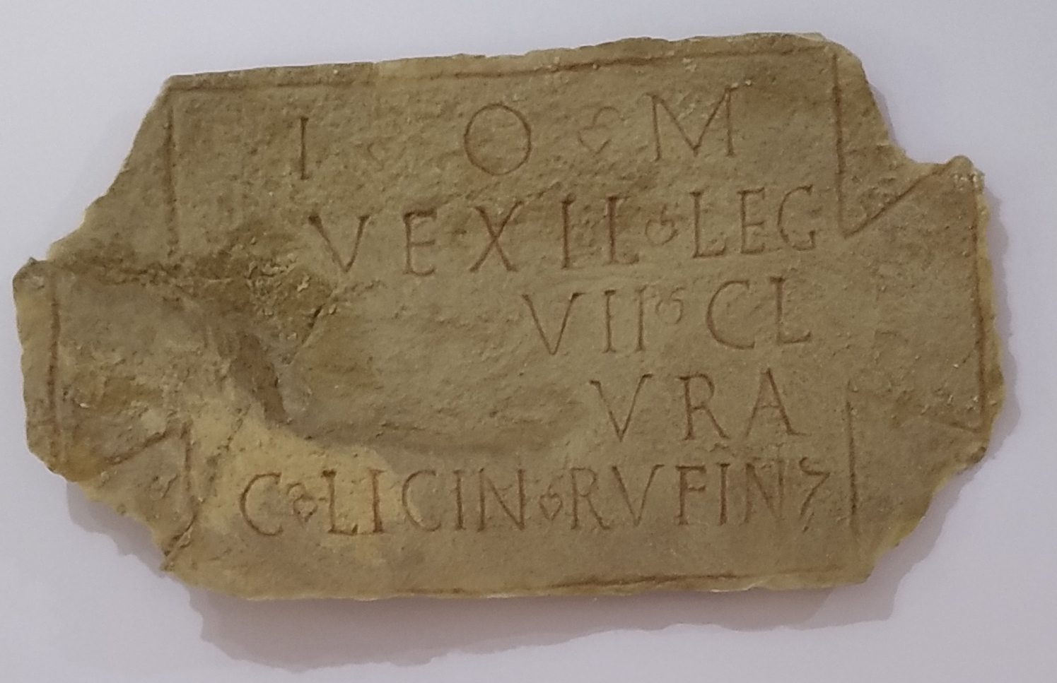 Imprint of The Roman legionary from Viminacium, by Licin Rufin, exibited at National Museum in Požarevac